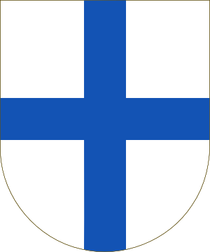 Shield of the County of Portugal after D. Henry Burgundy, 1st County of Portugal